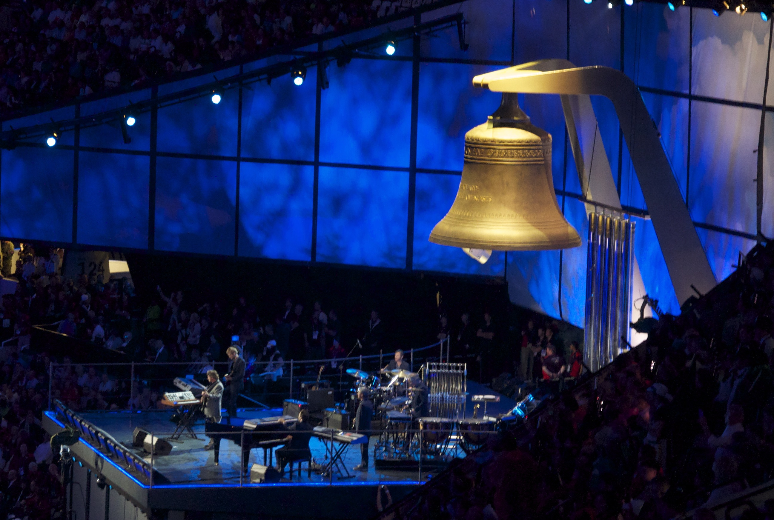 Mike Oldfield performing Tubular Bell at the London Olympics Opening Ceremony